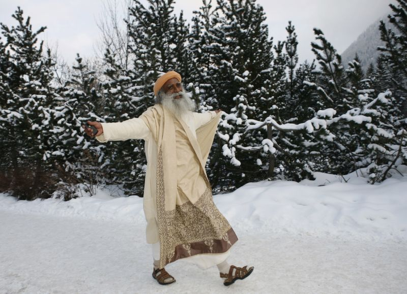 DAVOS/SWITZERLAND, 26JAN07 - Jaggi Vasudev, Sadhguru and Founder, Isha Foundation, India, captured in the snow at the Annual Meeting 2007 of the World Economic Forum in Davos, Switzerland